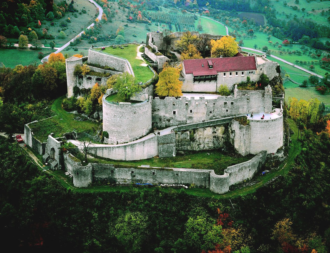 Hohenneuffen at the northern border of the Swabian Alb. Steady erosion over millions of years isolated humps like this, which consist of volcanic rock or harder sediments than the surrounding limestone. The ruin is a remainder of a late medieval castle.